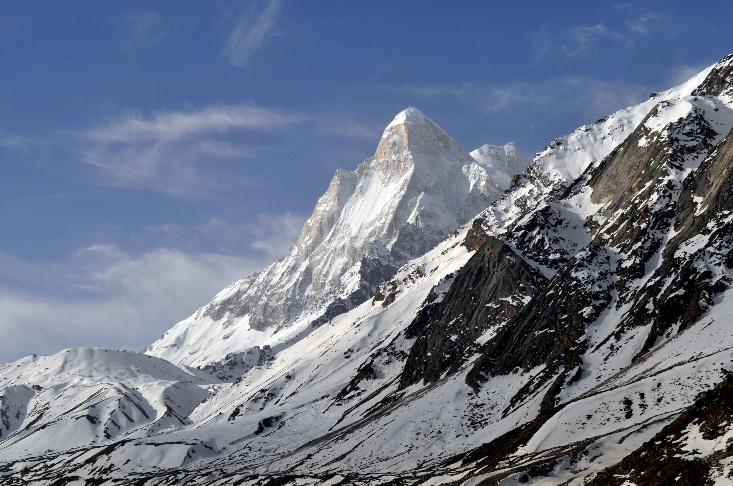 Shivling from Gaumukh